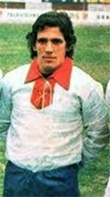 Mifflin pose for a picture that highlights the evolution of the Peru national football team's kit (uniform)